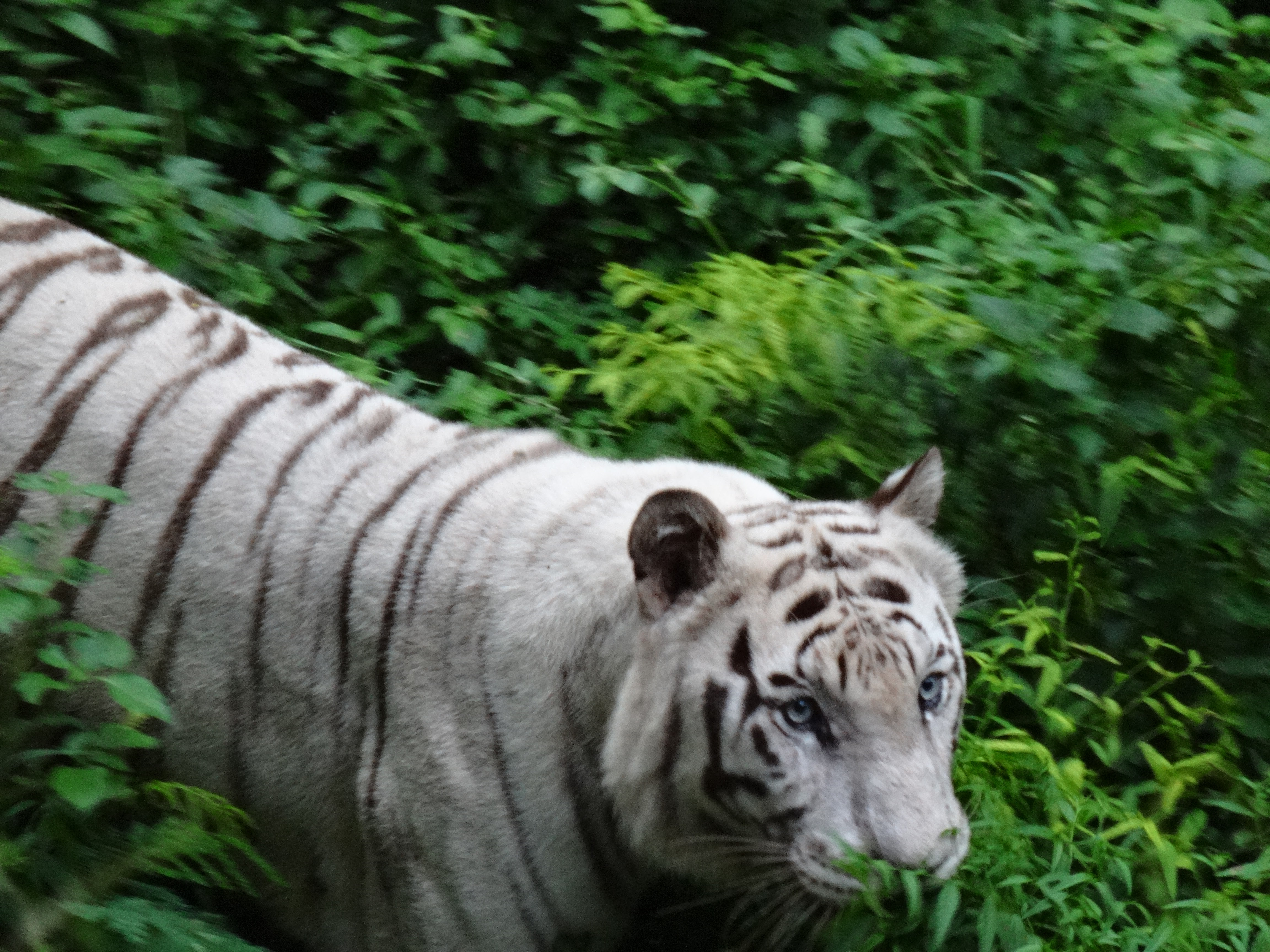 White Tiger